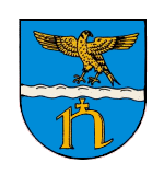 Coat of Arms of Karbach